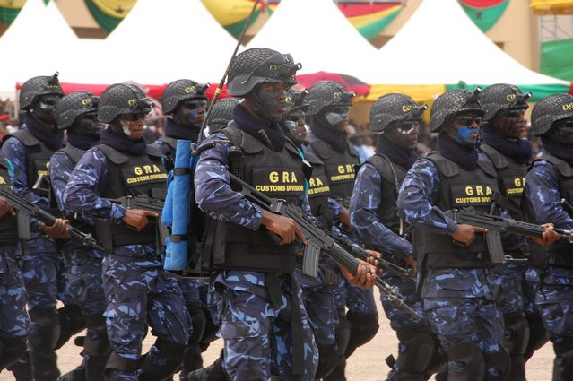 Customs Excise and Preventive Service (CEPS) Division of the Ghana Revenue Authority (GRA) at the Ghana 59th Independence Day Celebrations.